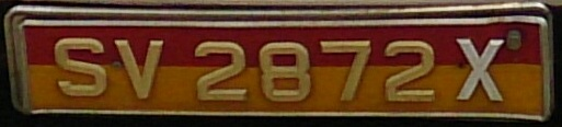 with special registration car plate